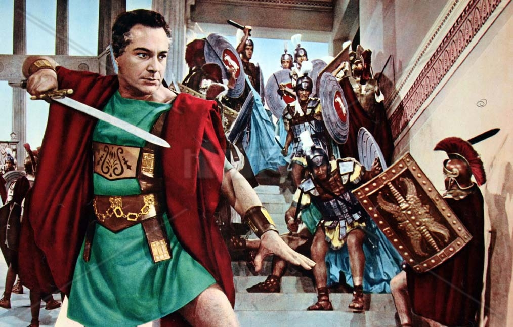 Screenshot from the film L'assedio di Siracusa (Italy, 1960)